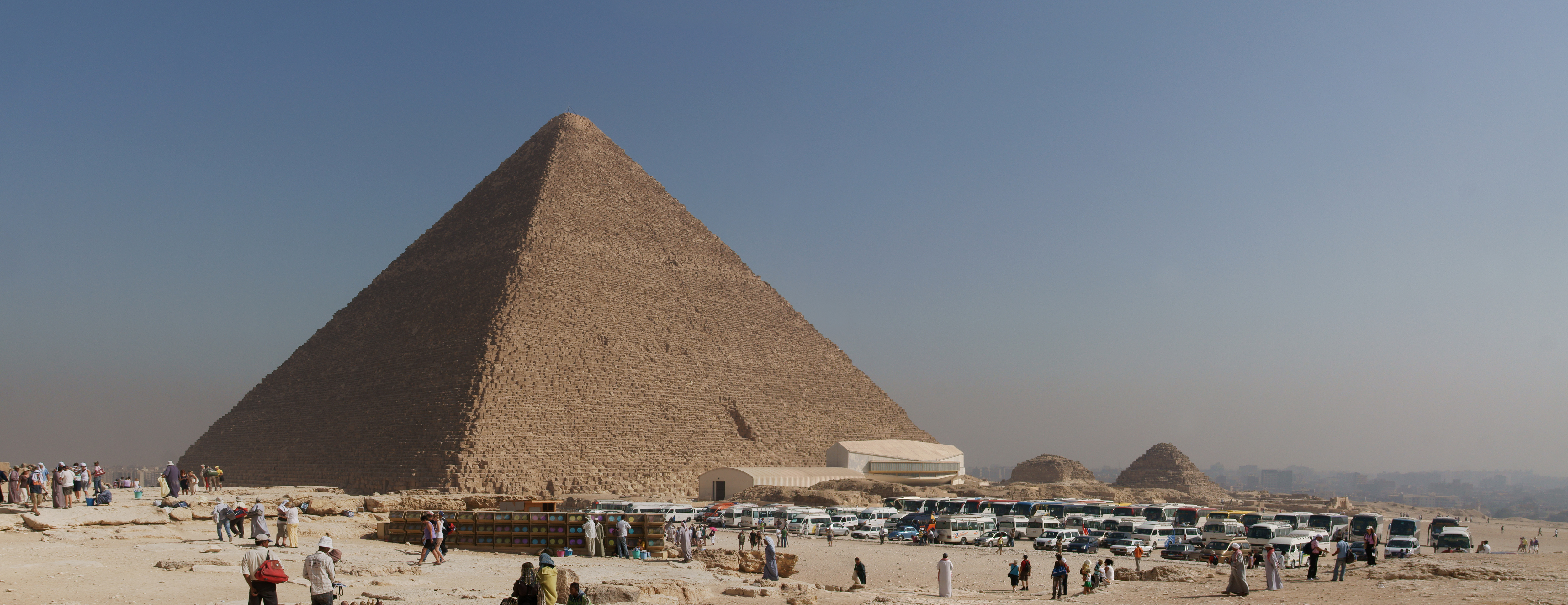 Tourist buses and the Great Pyramid of Giza.